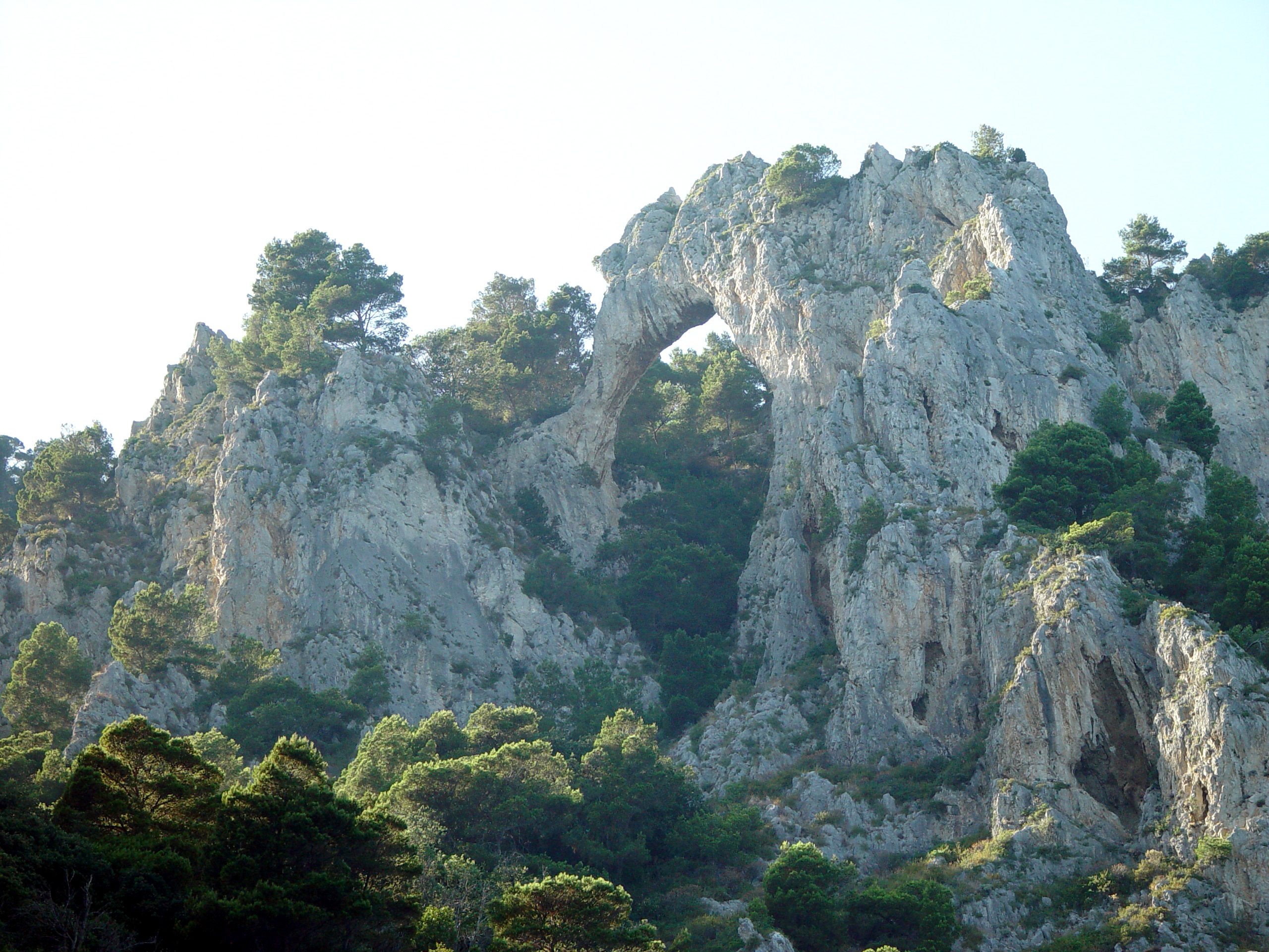 Natural arch (arco naturale) at the east coast of the italian island of Capri. The arch was formed after the collapse of a cave and the later erosion of the rock.